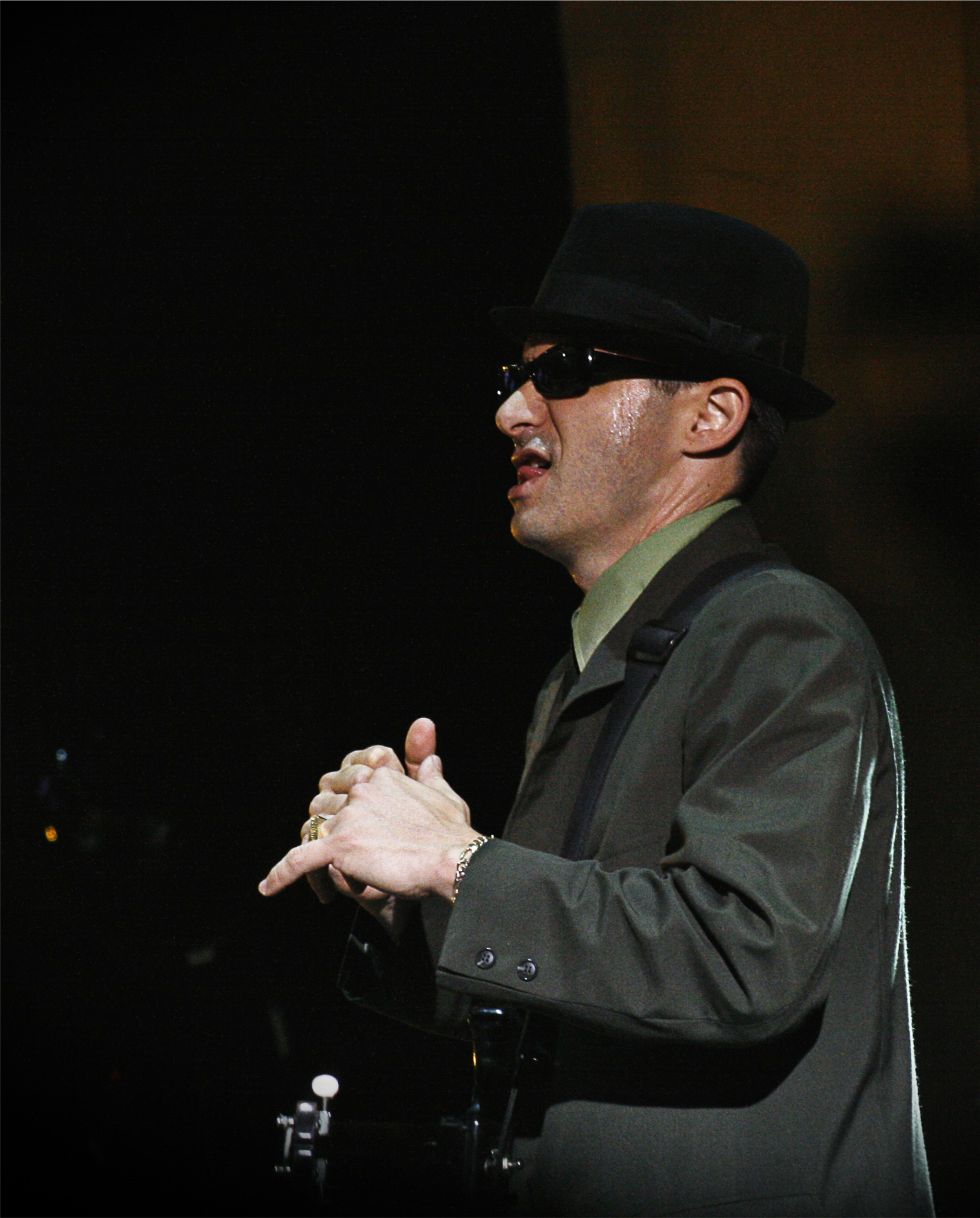 Adam Horovitz as Bestie Boys at Brixton Academy - 05/09/07